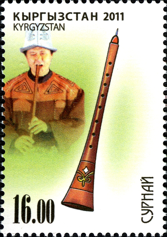 Stamps of Kyrgyzstan, 2011